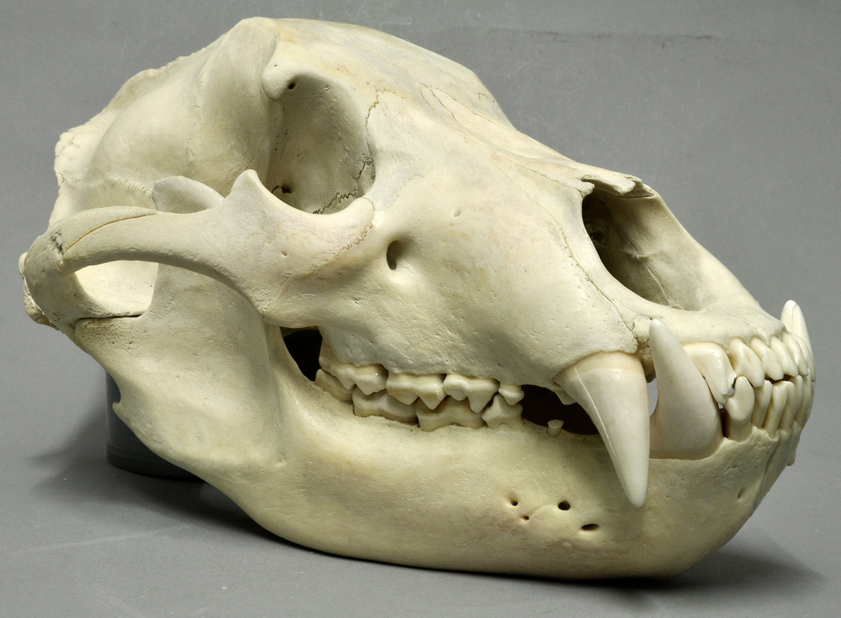 Brown bearUrsus arctos , skull, Coll. Museum Wiesbaden